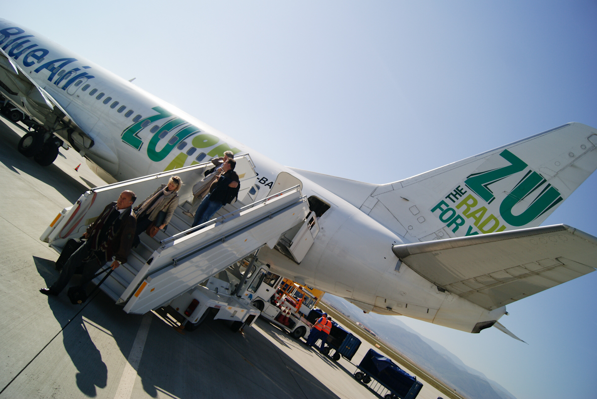 Aeroportul Sibiu, cursa Blue Air.